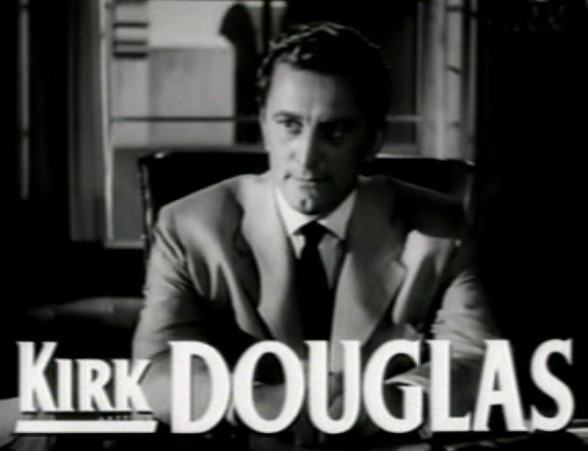 Cropped screenshot of Kirk Douglas from the trailer for the film The Bad and the Beautiful.